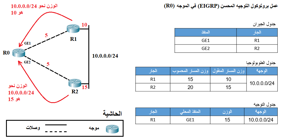 EIGRP Tables, the values are unrealistic for simplicity.